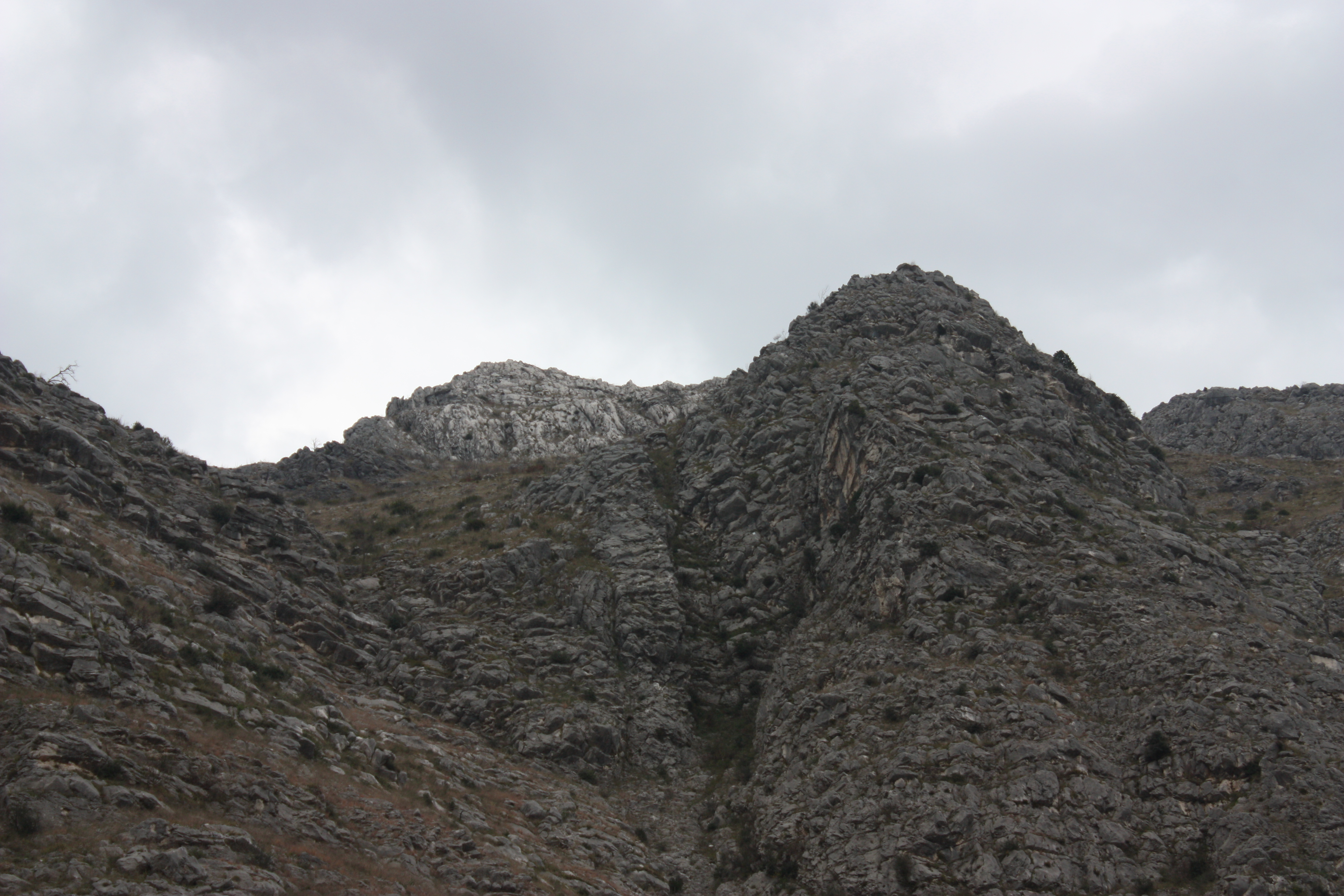 Golubov kamen